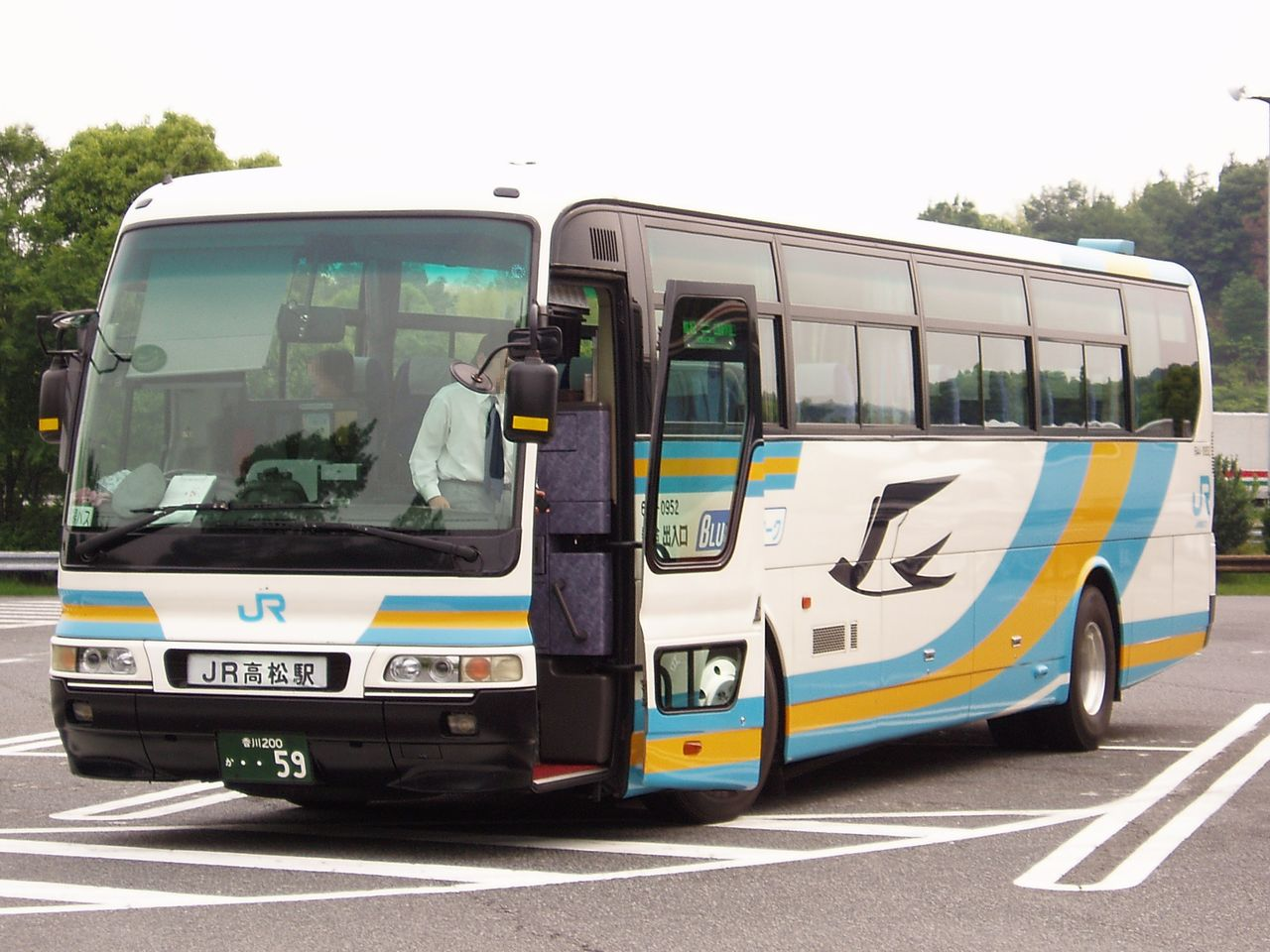 JR Shikoku Bus 644-0952 Mitsubishi KL-MS86MP at Michiguchi Perking Area